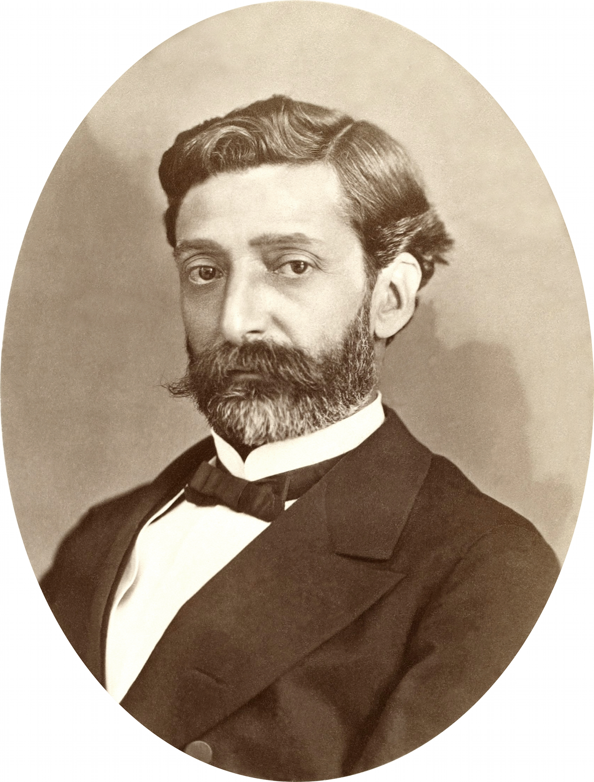 François Édouard Raynal (1830 - 1895 or 98), french navigator, explorer and writer.